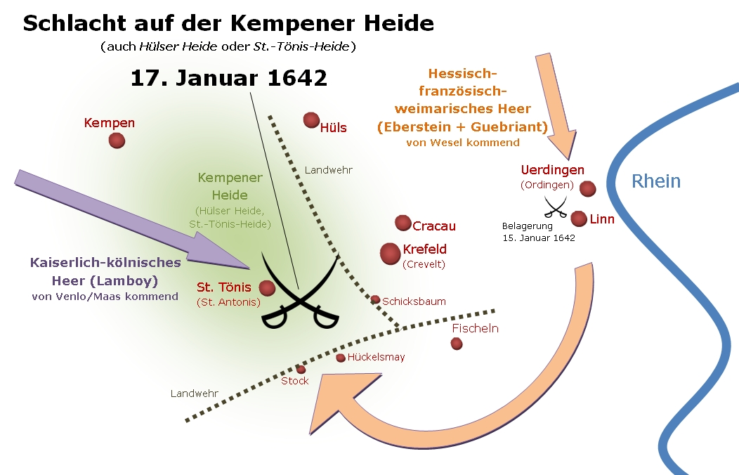 Map of the Battle near Kempen/Germany in 1642 (during the 30 Year War)